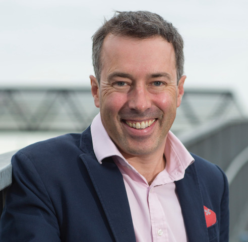 Author Turtle Bunbury. 14/10/2015 Picture by Fergal Phillips